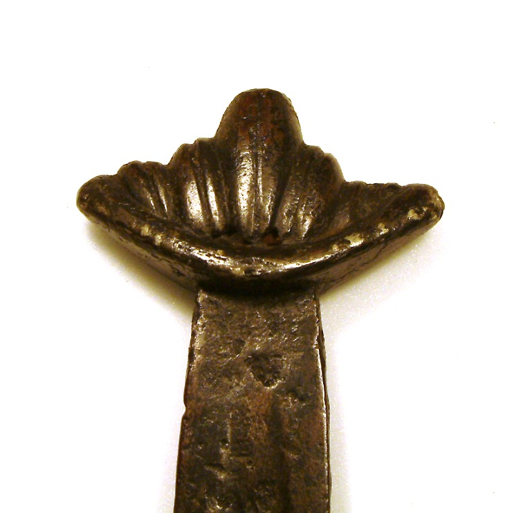 Sword with curved medieval-style guard and lobed Viking-style pommel. Inscribed on both sides of the blade. The pommel has a curved upper guard and is divided into five separate lobes radiation from the largest central piece. All are bisected by a groove along their length and at the point where all meet there is as small gap between the pommel and the upper guard mainly at the base of the central lobe, this shows some signs of damage/corrosion. The tang is intact and displays a wide shallow groove along its centre on both sides. The guard is curved and quite long, with a small triangular protrusion over the fuller of the blade on both faces; one half of the guard itself however is slightly deformed. The shoulder of the blade is proud of the top of the guard but is smaller than the tang. A long shallow fuller runs most of the length of the blade and is inscribed on both sides though it becomes increasingly worn as it nears the tip to the point of illegibility. The tip of the blade shows some damage but the base is in very good condition.